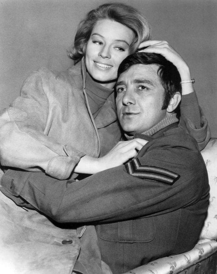 Photo of Richard Dawson as Newkirk with Ulla Stromstedt from the television program Hogan's Heroes.